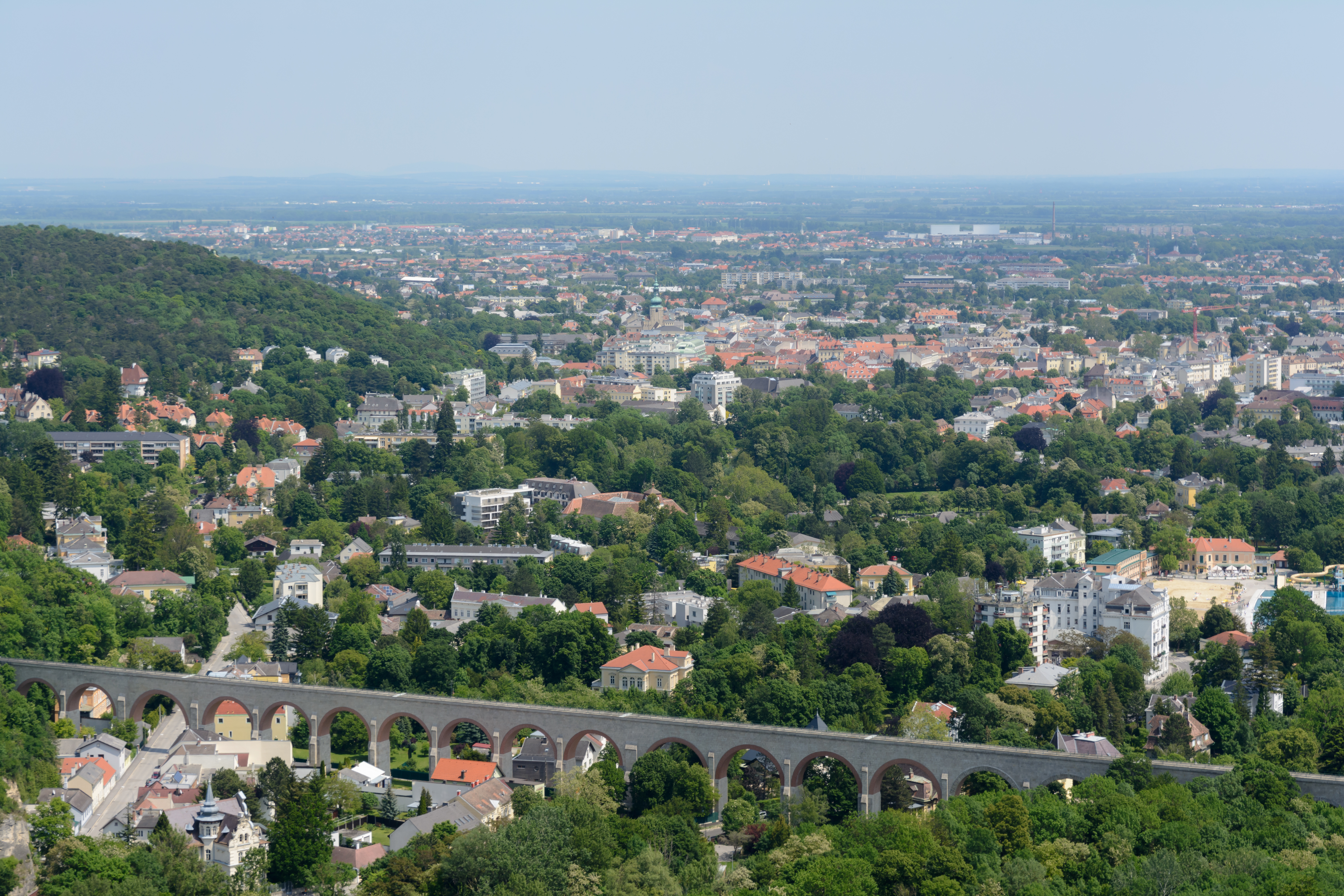 Baden bei Wien, Lower Austria. In the foreground the aqueduct of the First Vienna Mountain Spring Pipeline.